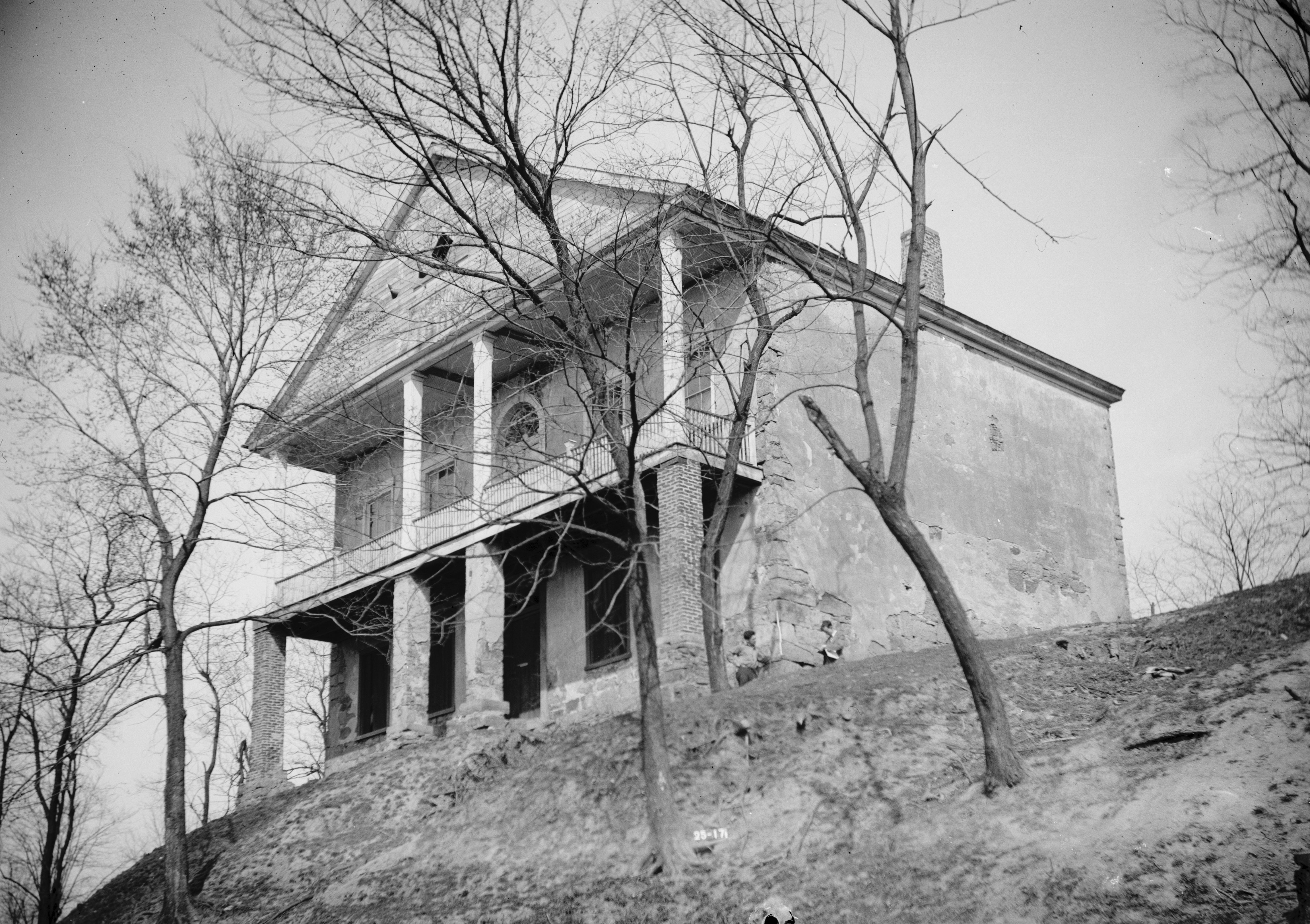 Thebes Courthouse, Thebes, Alexander County, IL - view from south-west.